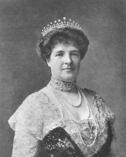 Portrait of Queen Amélia of Portugal, née Princess of Orléans